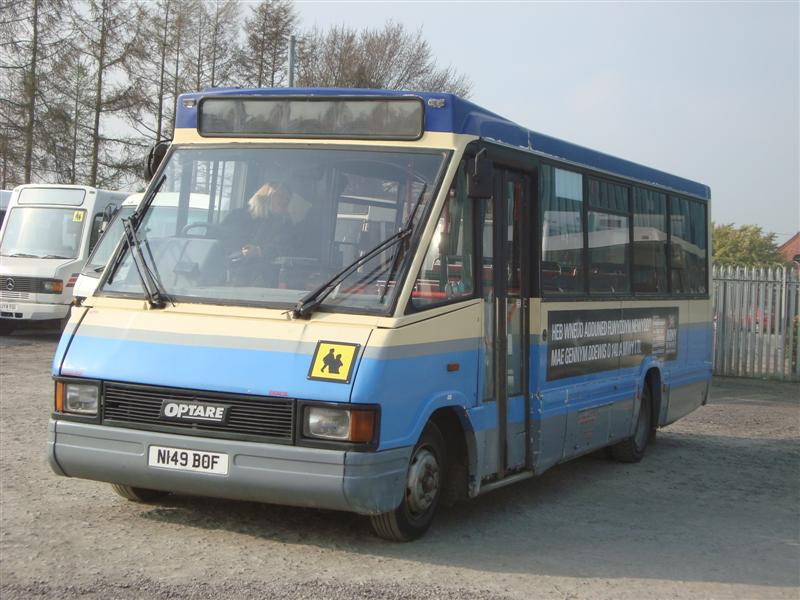 Vale Travel bus (reg. N149 BOF), an 1996 Optare MetroRider midibus, in the company's depot. Vale Travel are owned by GHA Coaches.